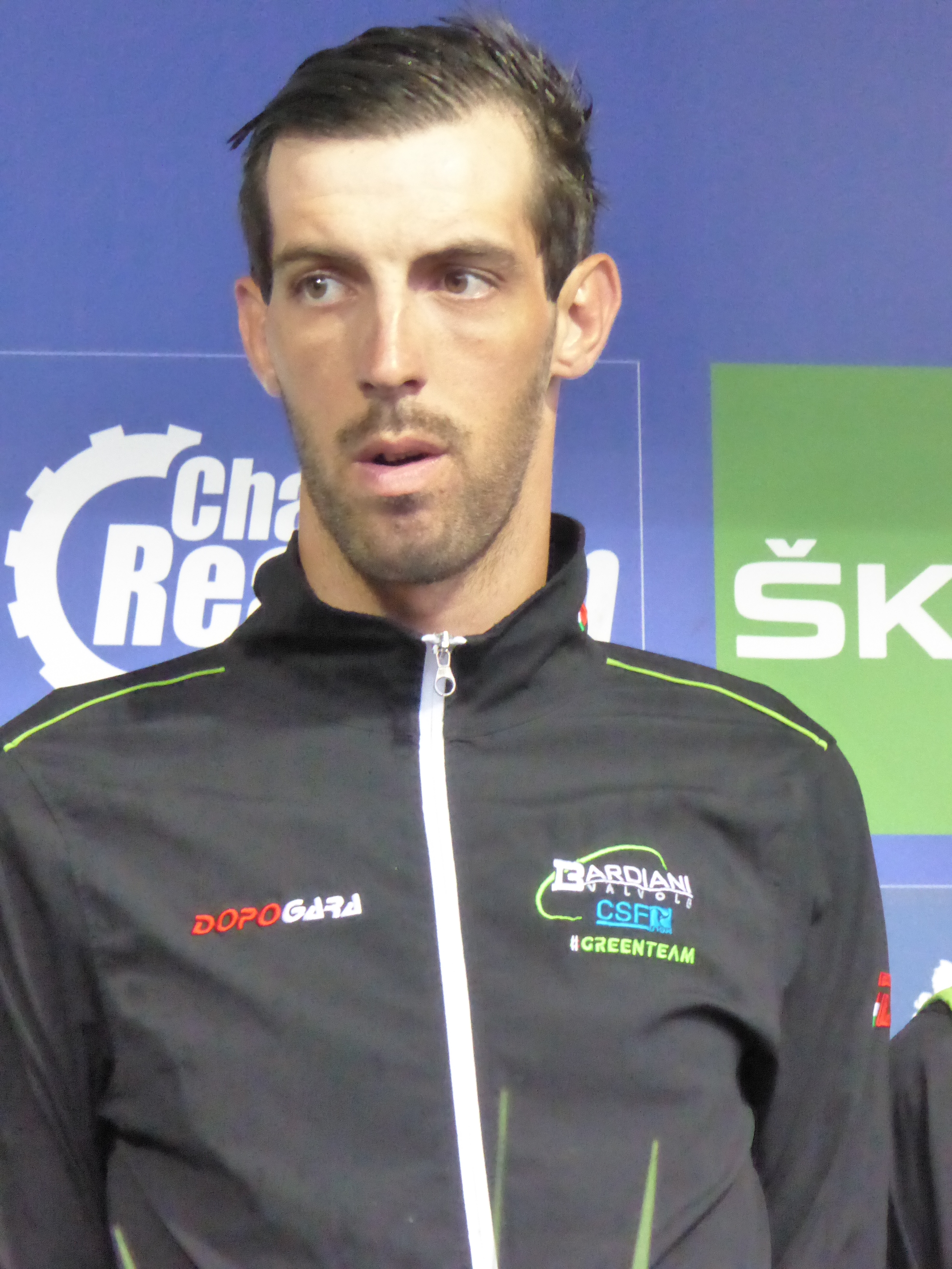 Nicola Boem (Bardiani-CSF), pictured at the 2016 Tour of Britain team presentation in Glasgow on 3 September 2016.